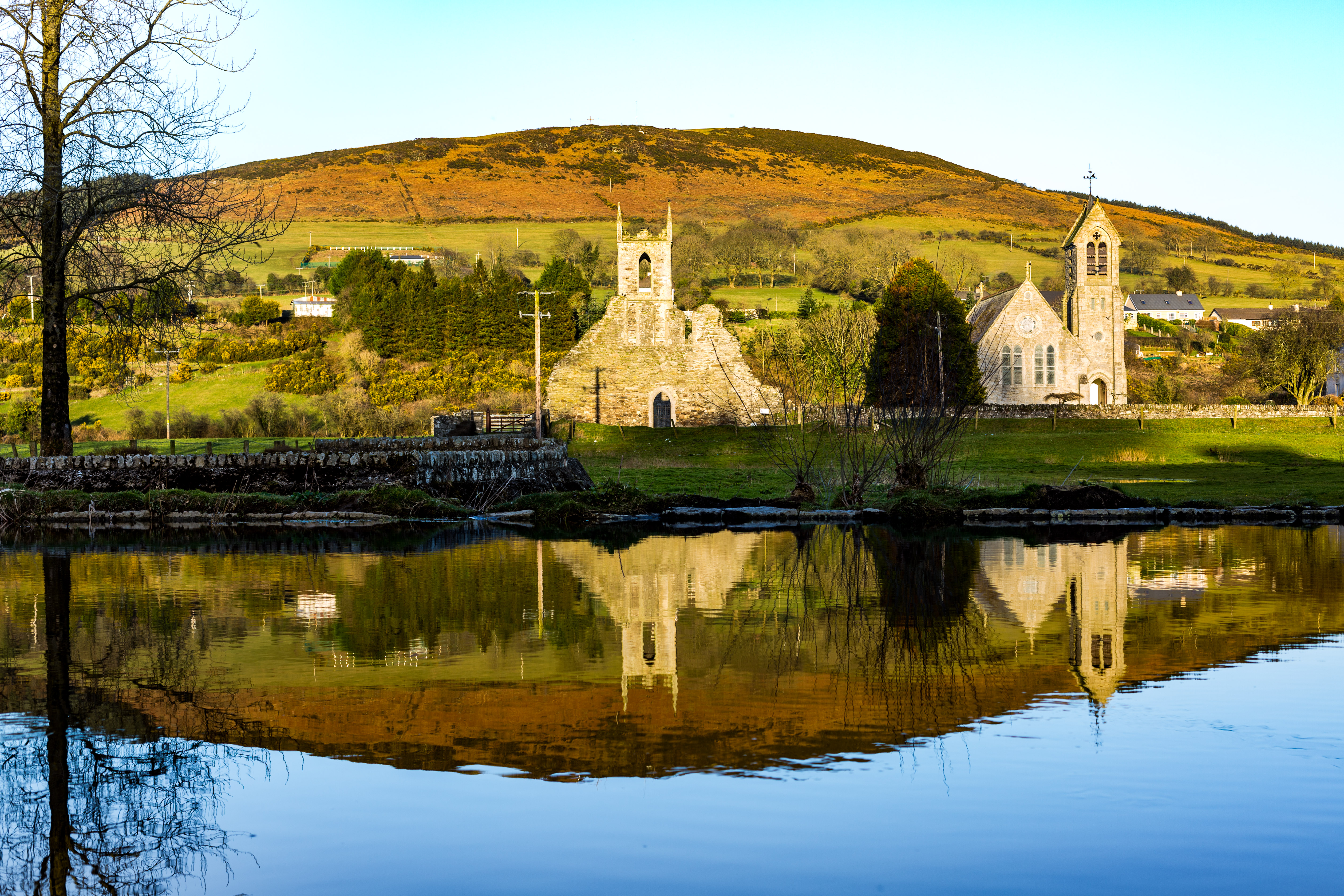 While on route to Dublin, I stopped off across from Baltinglass Abbey.